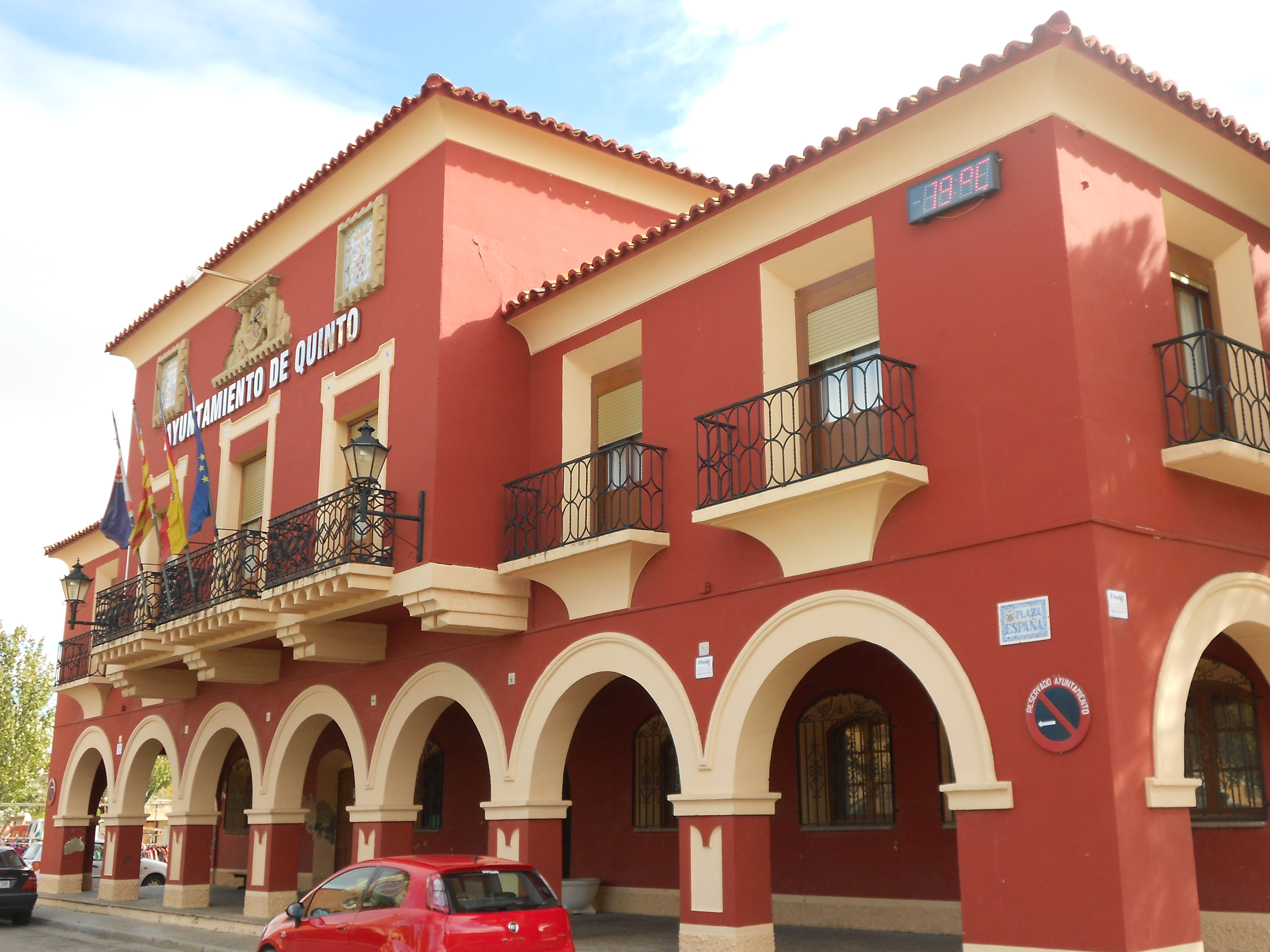 Quinto Town Hall (Aragón, Spain).